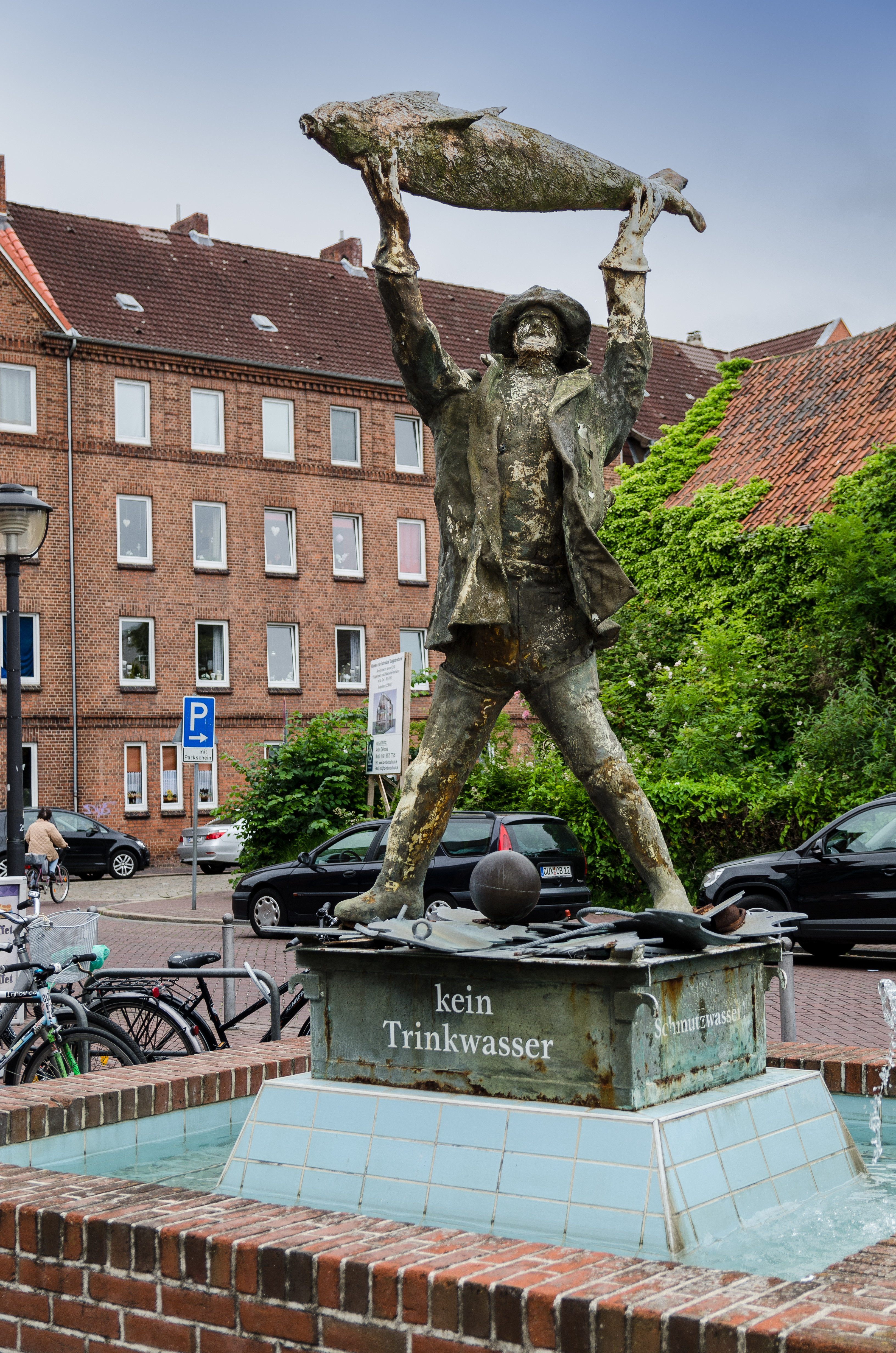 Fountain of fisher in Cuxhaven at the Segelckestraße